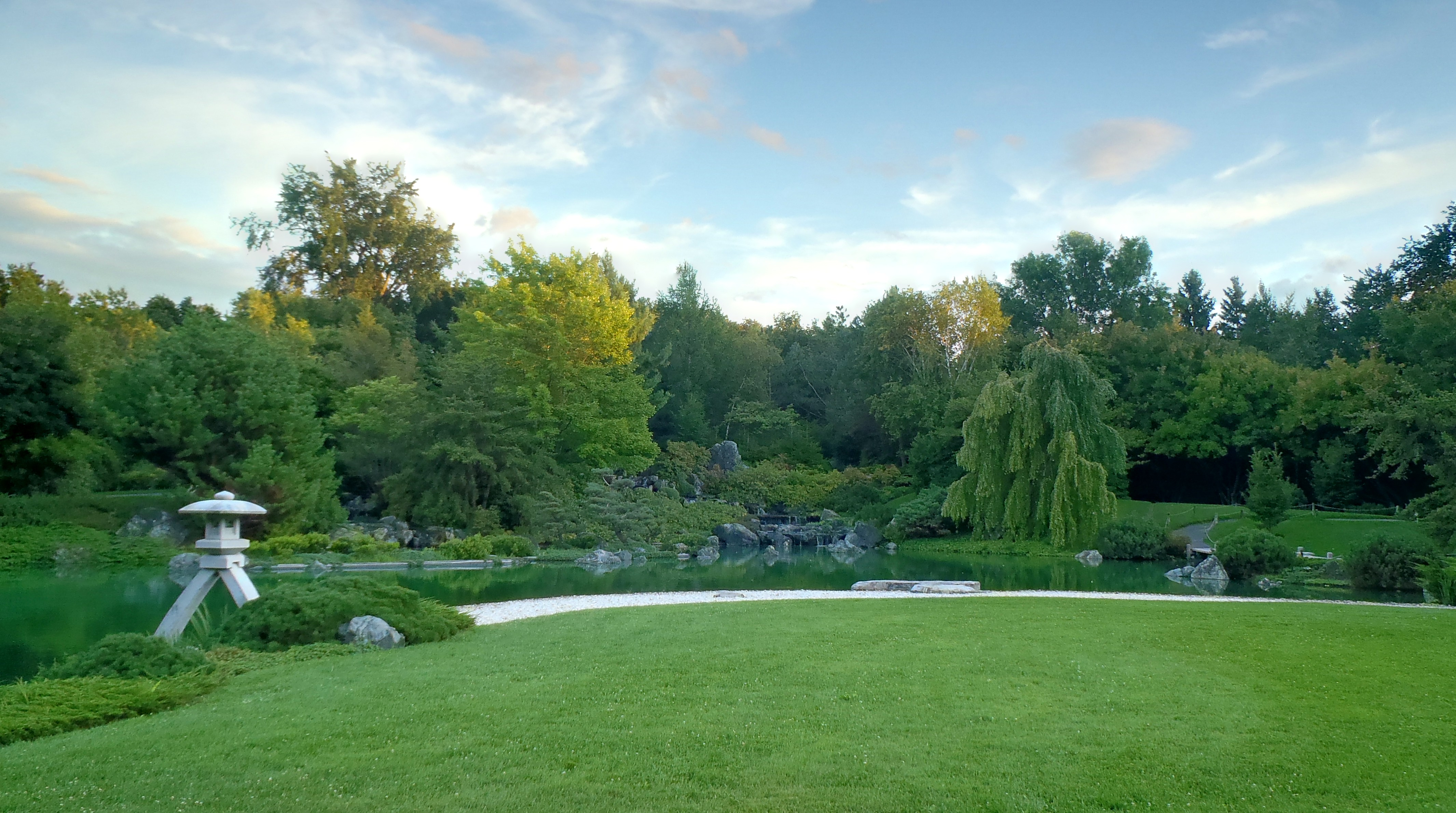 Montréal Botanical Garden - Japonese Garden